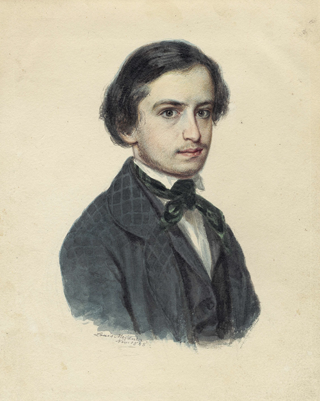 Depicted person: Edvard Flygare, FIL.DR